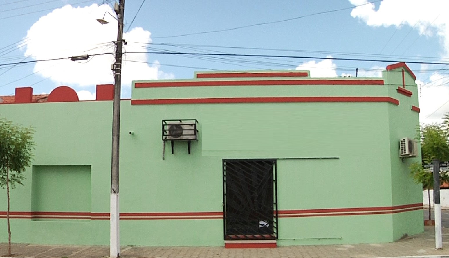 Prefeitura de Pindoretama